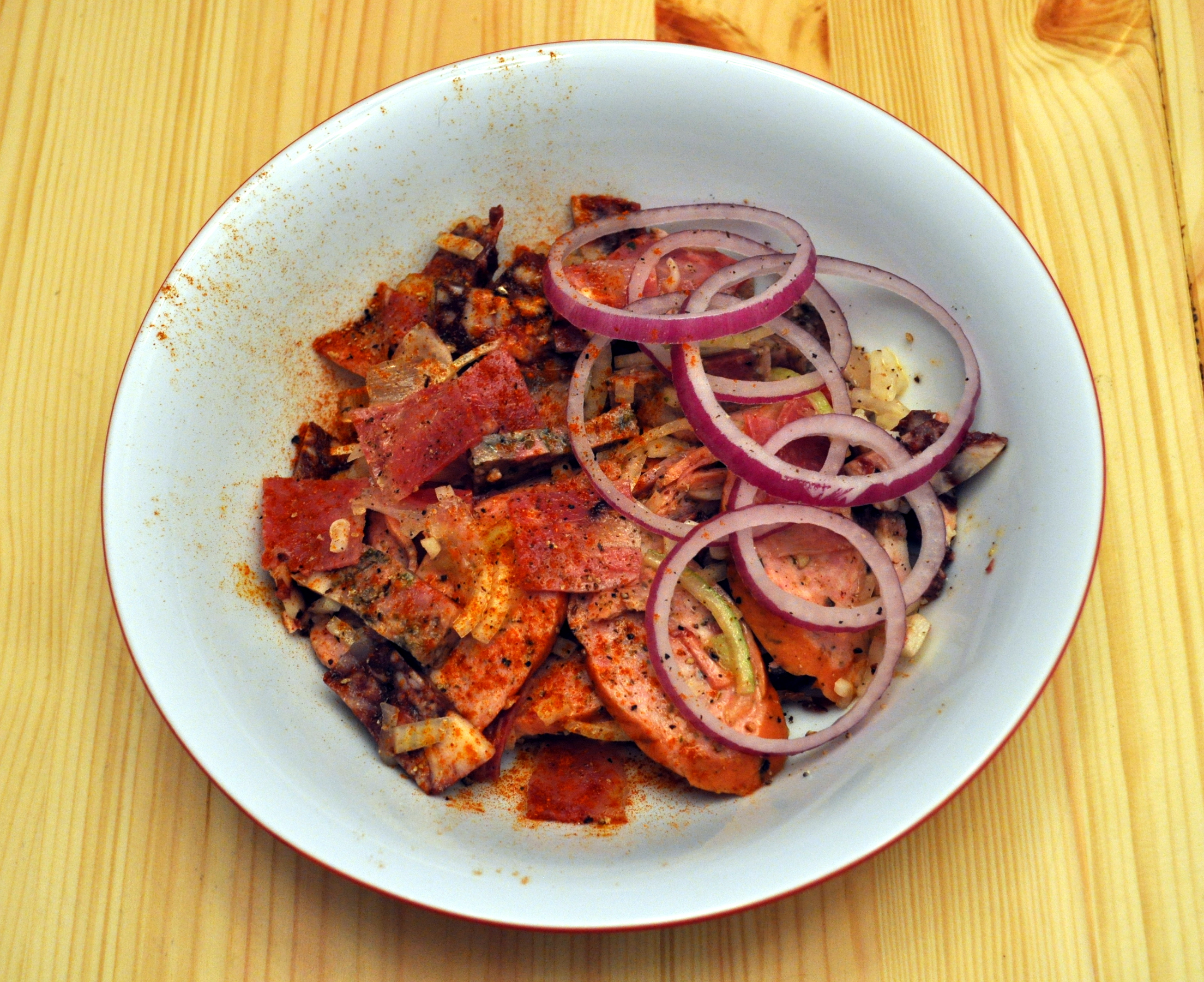 Nürnberger Gwerch, a traditional franconian sausage salad.